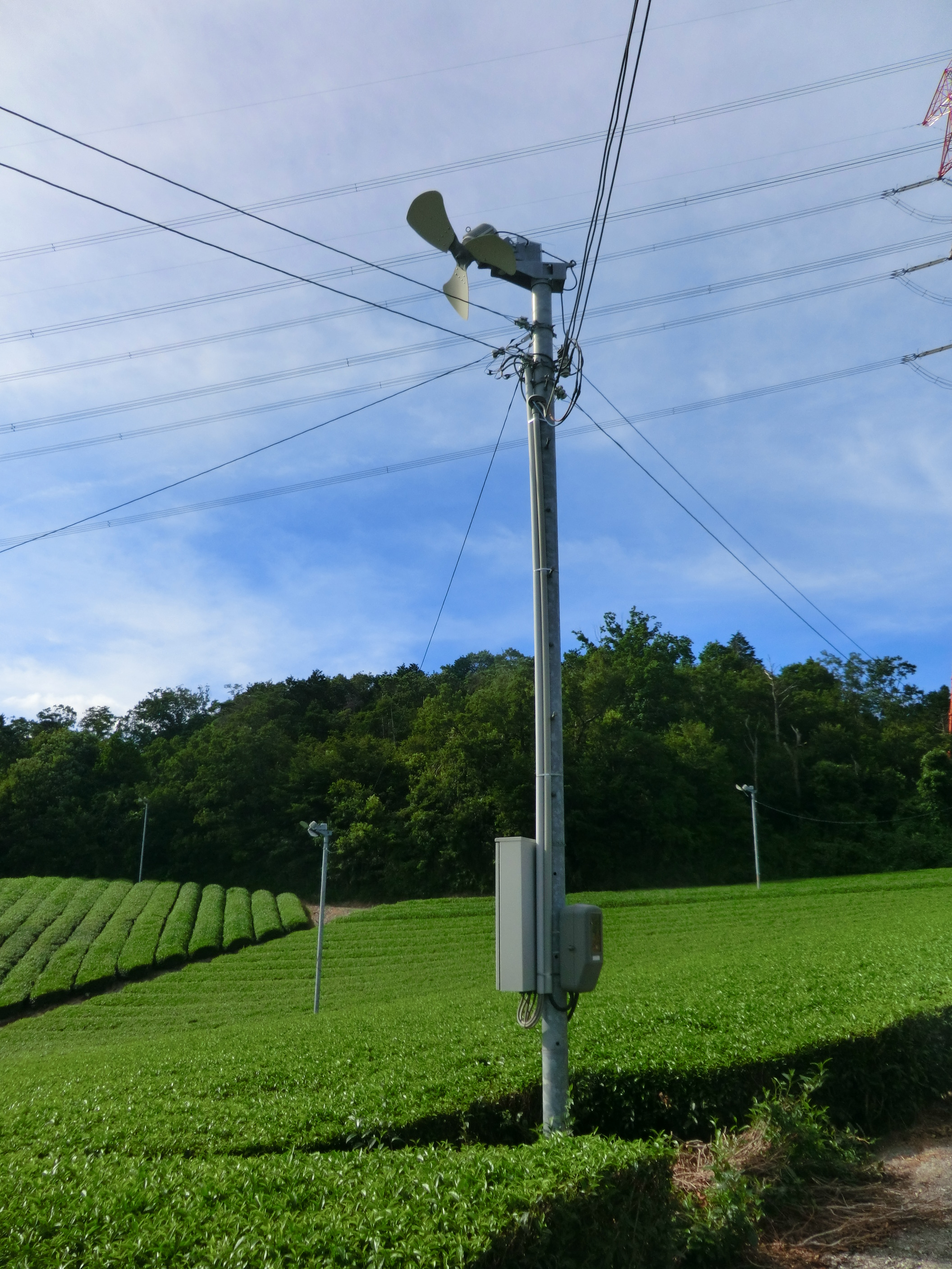 Frost prevention fan for Ōmi tea, Mushouno, Minakuchi, Koka, Shiga, Japan